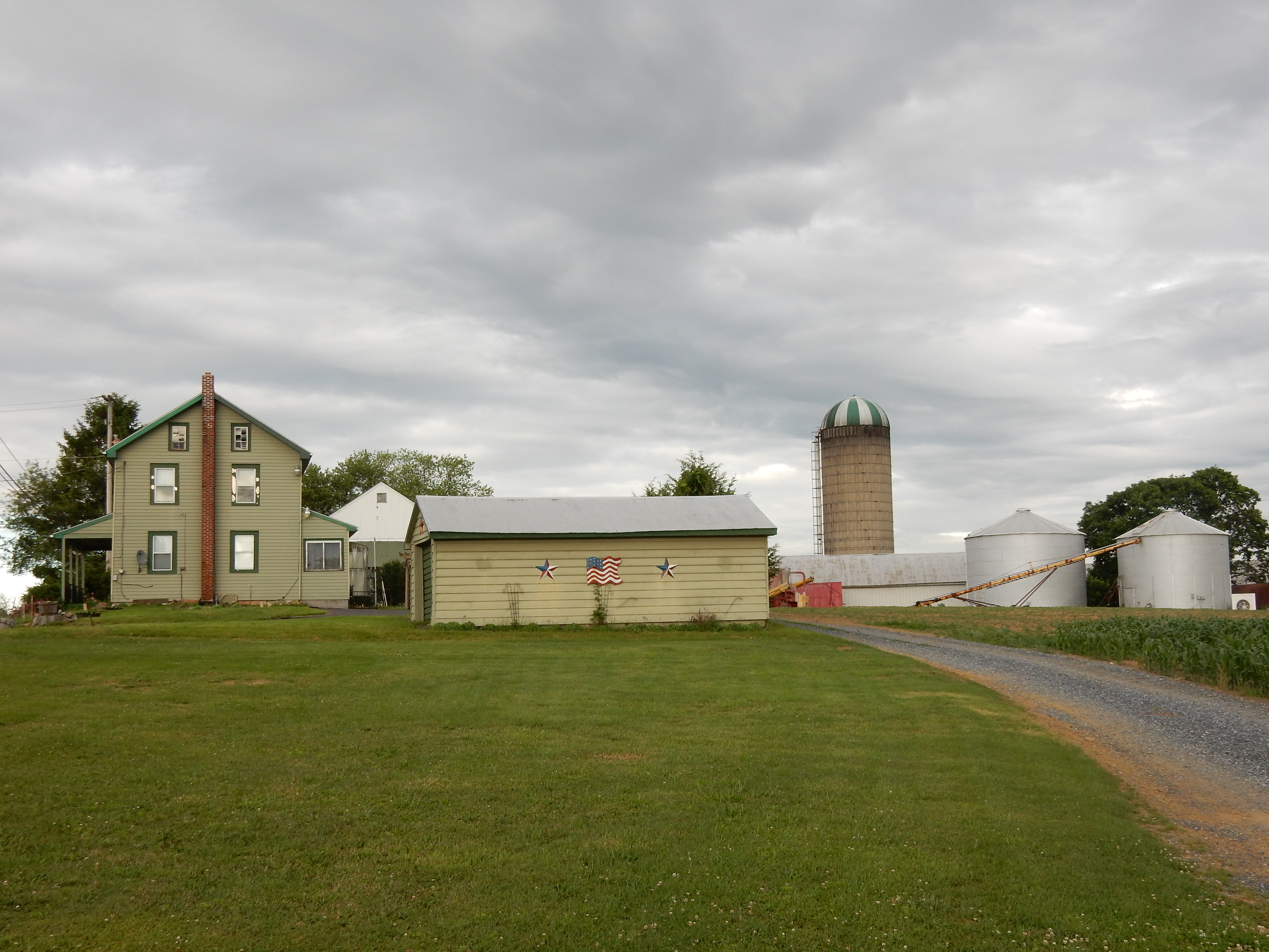 Farm comlex on Olde Route 22 in Upper Bern Township, Berks county, PA.